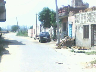 sidhwan road,, mehmi nagar